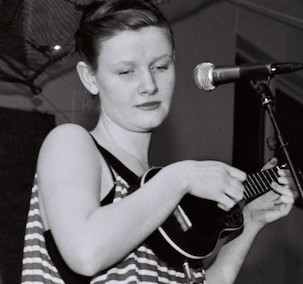 Sigurlaug Gísladóttir. Ísafjörður, the Icelandic Rock City - April 2009. Blog here!